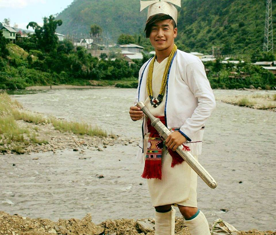 Miji male attire represented by a young man from West Kameng, Arunachal Pradesh